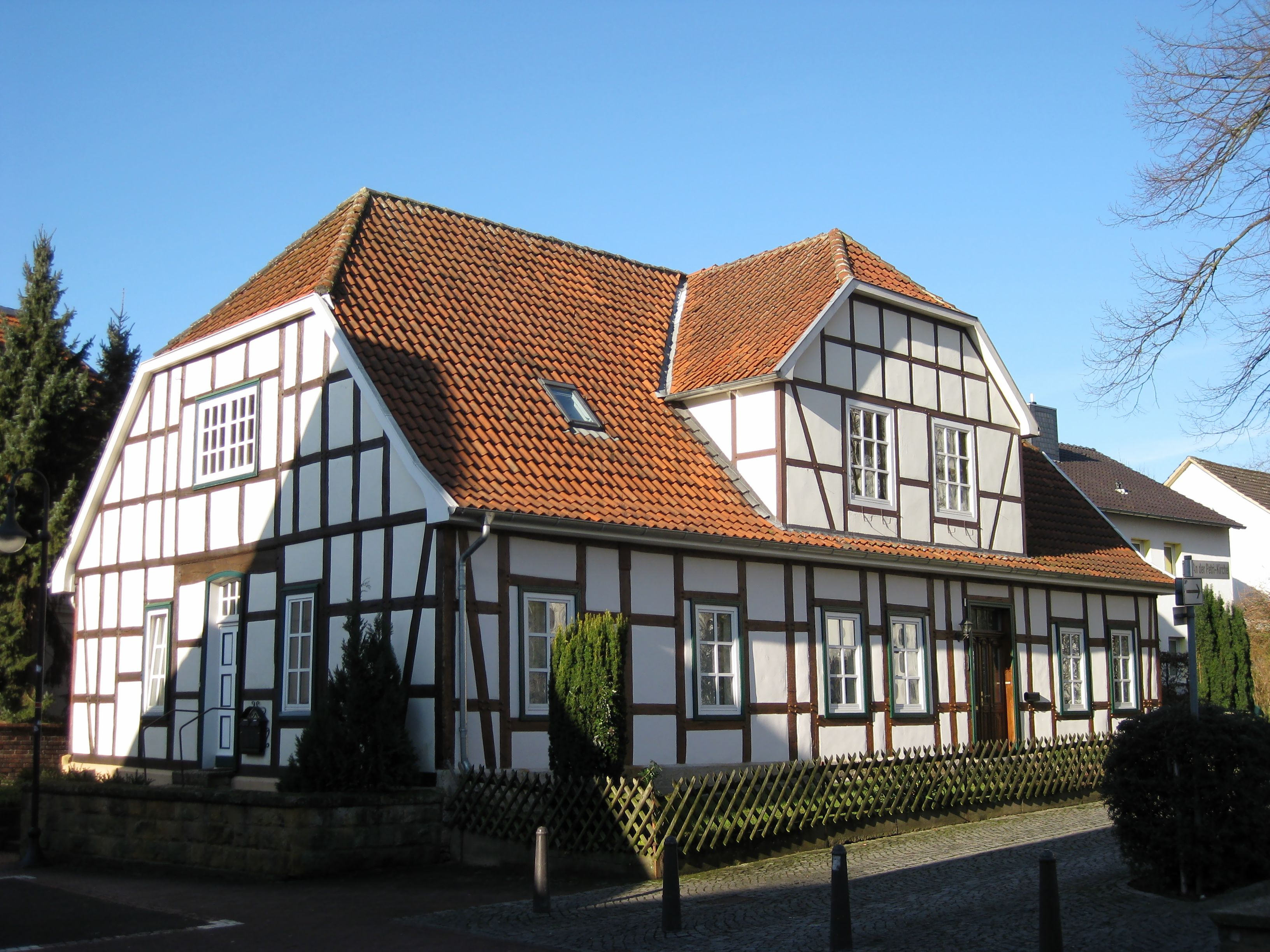 Former house of the choirmaster in Versmold, text on infoboard: The original choirmaster's house of the parish was destroyed in the town fire in 1804. The current buiding was erected as its replacement between 1806 and 1808. Gottfried Möllenstedt, later rector of the University of Tübingen, was born here in 1912.